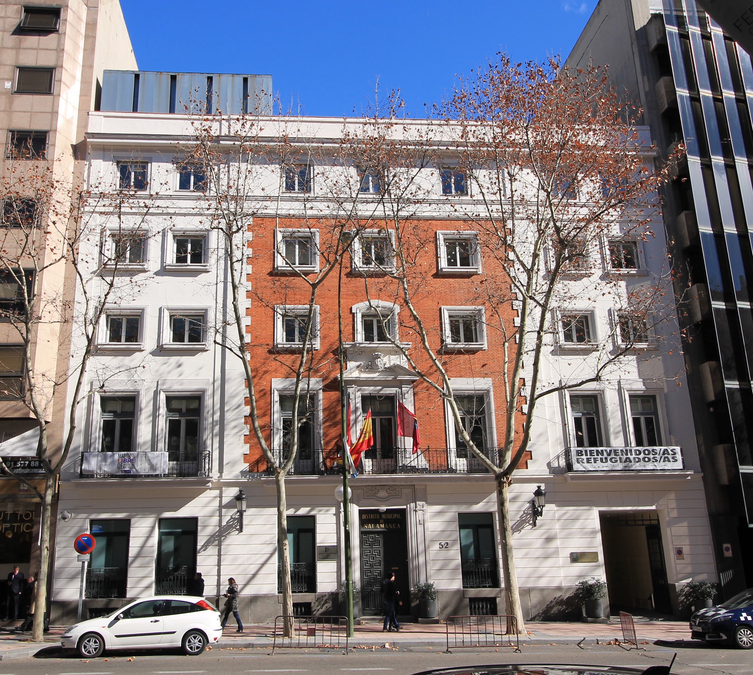 Façade of Salamanca District Hall in Madrid (Spain), at 52 Calle de Velázquez (street).